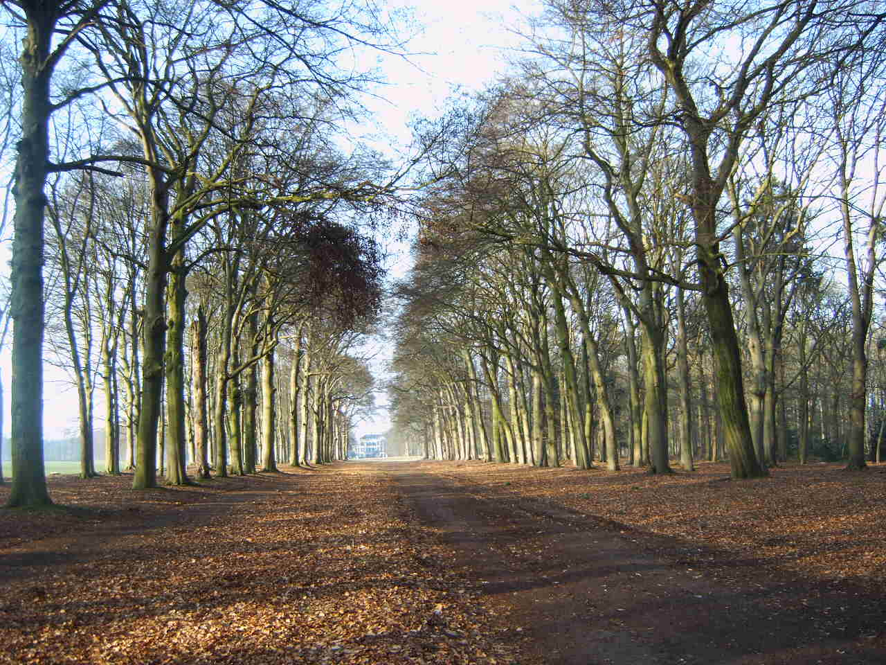 On the Utrechtpad walking path - hiking trail, south of Leersum, the Netherlands.